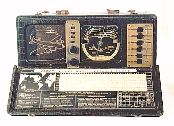 Zenith 7G605 World's First True Portable Multiband Radio